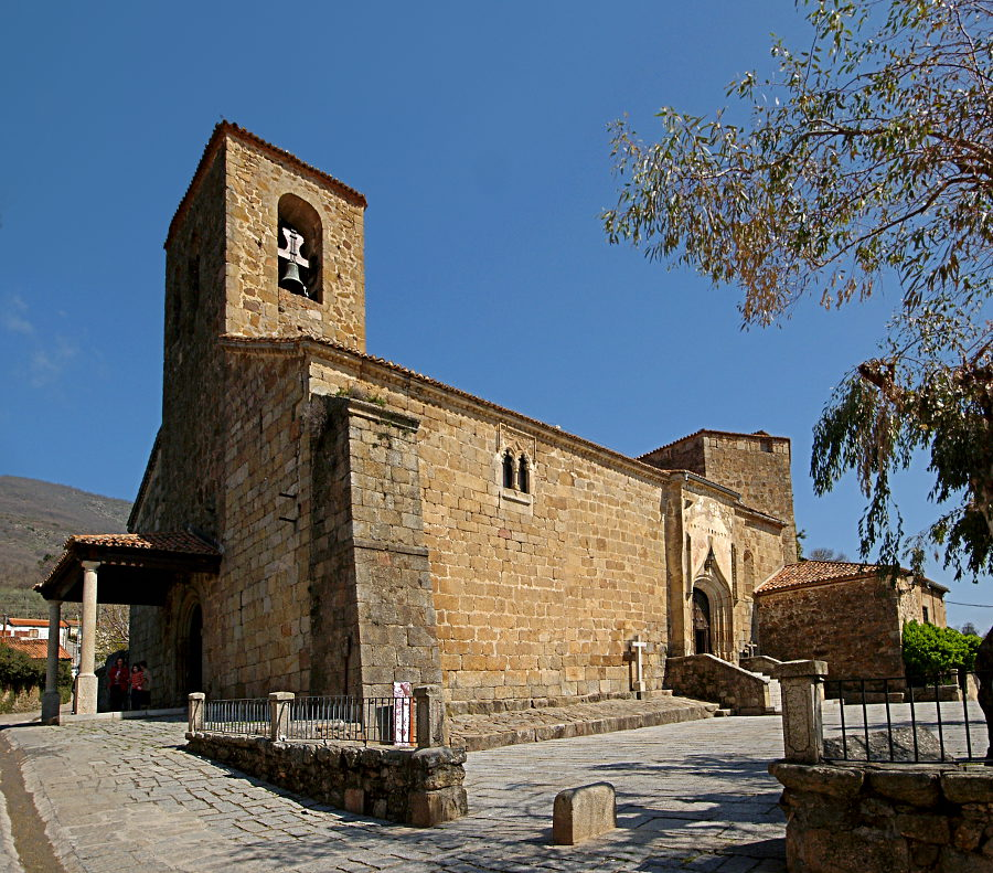 Church of Santa María de Fuentes Claras, Valverde de la Vera